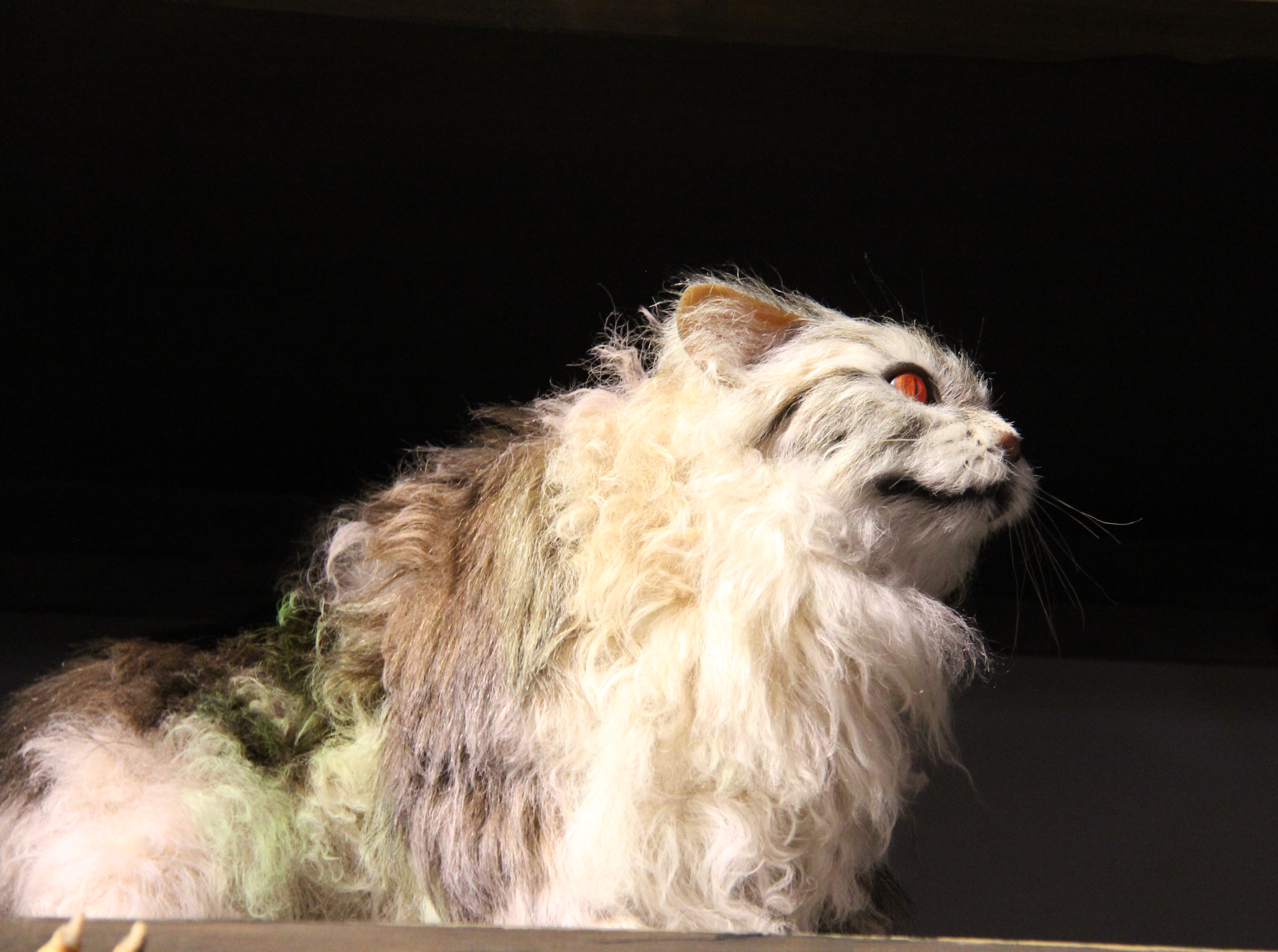 Mrs Norris